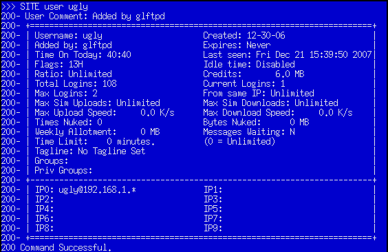 output from glFTPd's 'site user' command